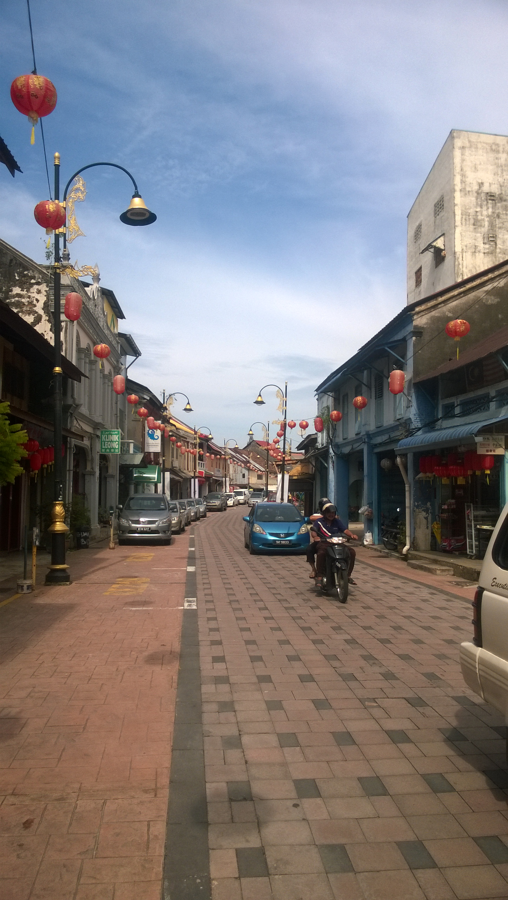 A view of Chinatown, Kuala Terengganu, Terengganu, Malaysia.